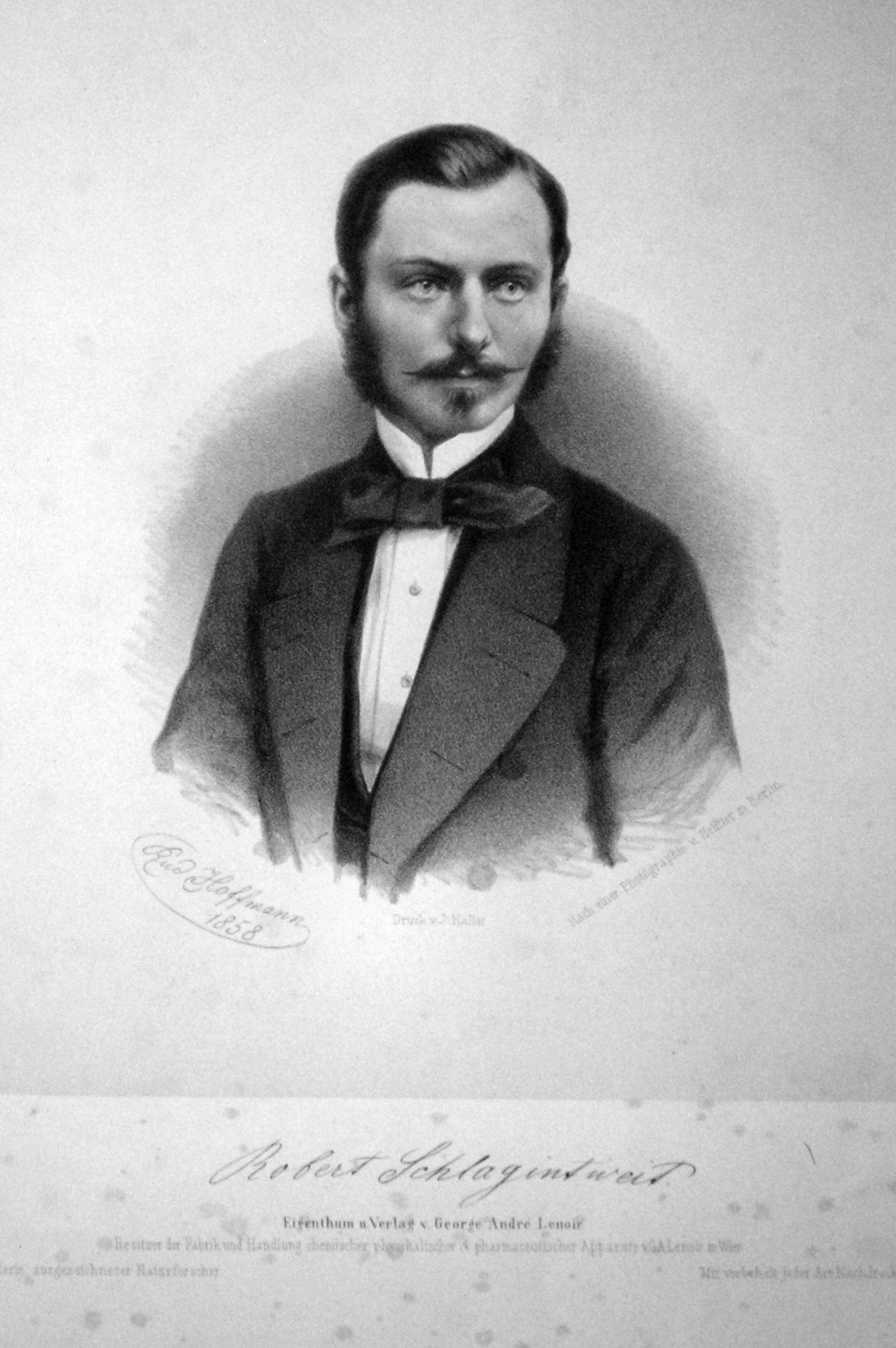 Robert Schlagintweit (explorer) 1833 -1885; Lithography by Rudolf Hoffmann, 1858, after a photo by Halffter (Berlin)